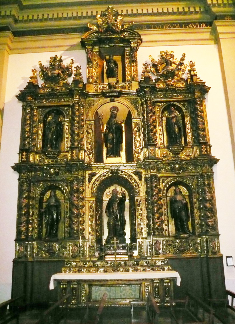 Santa Clara altarpiece by Andreu Sala, 1686